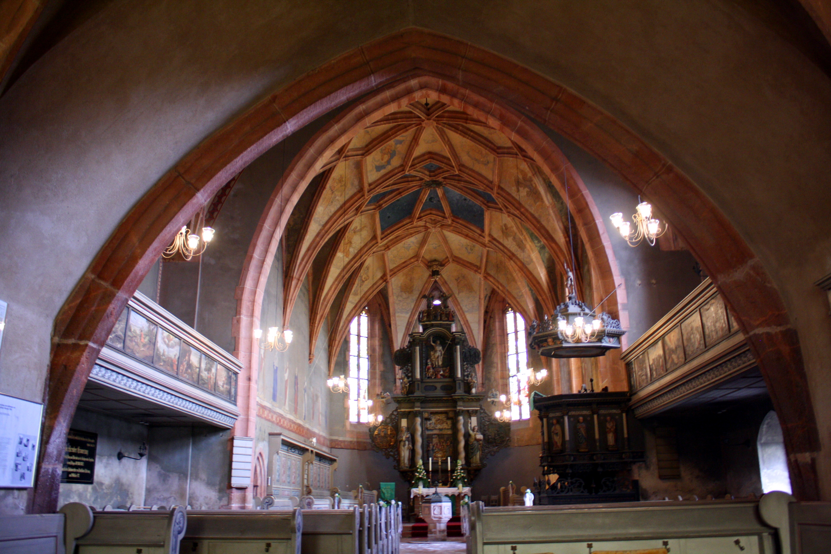 Saint mary´s church in Ziegelheim near Altenburg/Thuringia